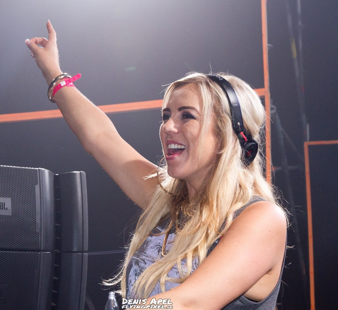 Korsakoff @ Airbeat One 2015